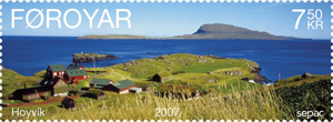 Stamp FO 615 of the Faroe Islands: Hoyvík sepac 2007 - beautiful corners of Europe.